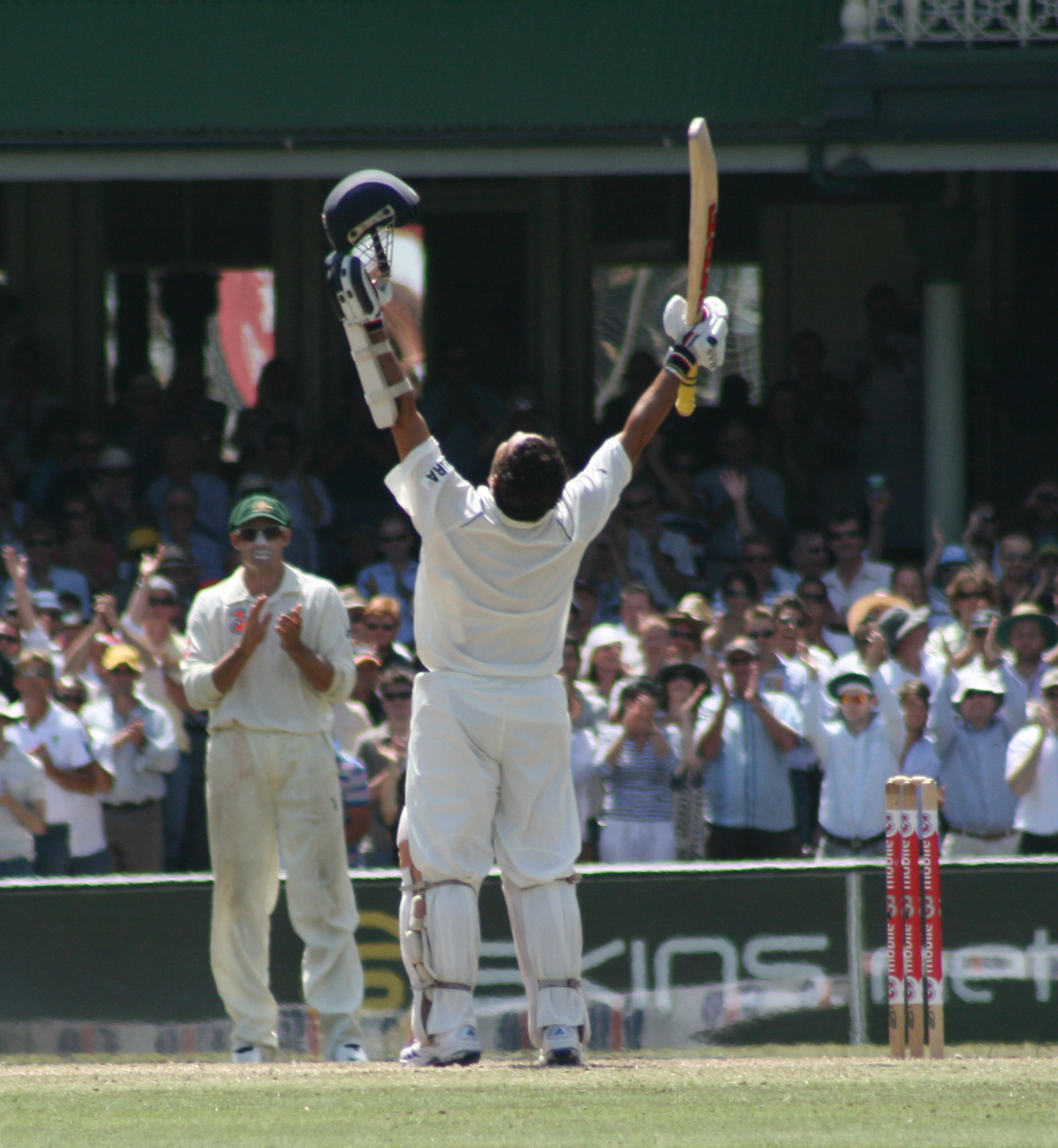 Taken at SCG, 3rd Day, Australia vs India, 4th Jan 2008